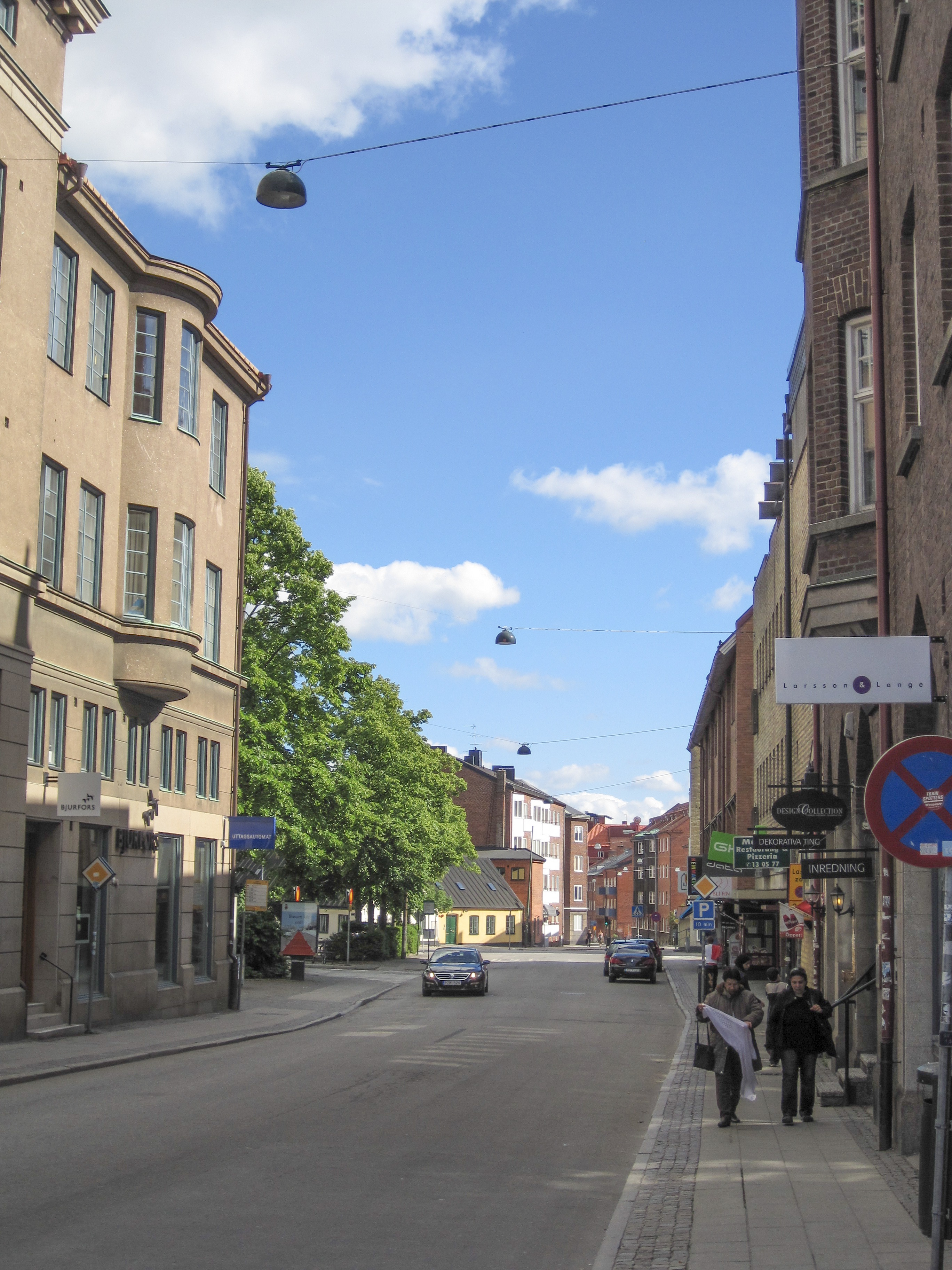 Bankgatan, a street in the southern parts of central Lund, Swden. The photo is showing the street from north.